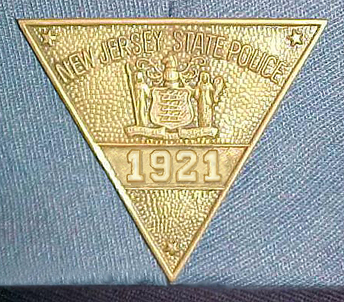 I made this image using Photoshop. It is not a photograph of an actual badge, but a representation of a badge that was never issued - #1921 - the year the New Jersey State Police was founded.